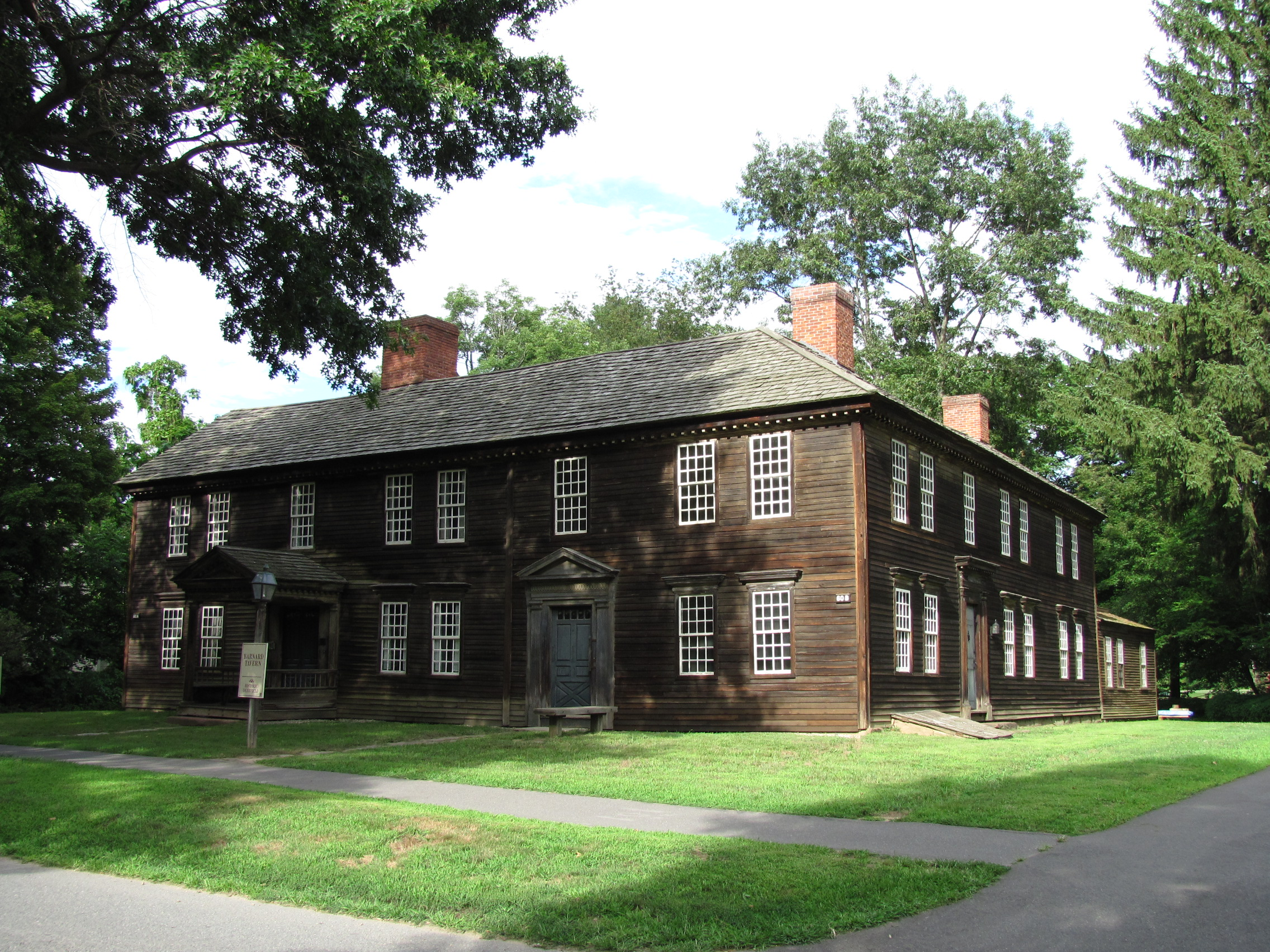 Barnard Tavern, Deerfield Massachusetts